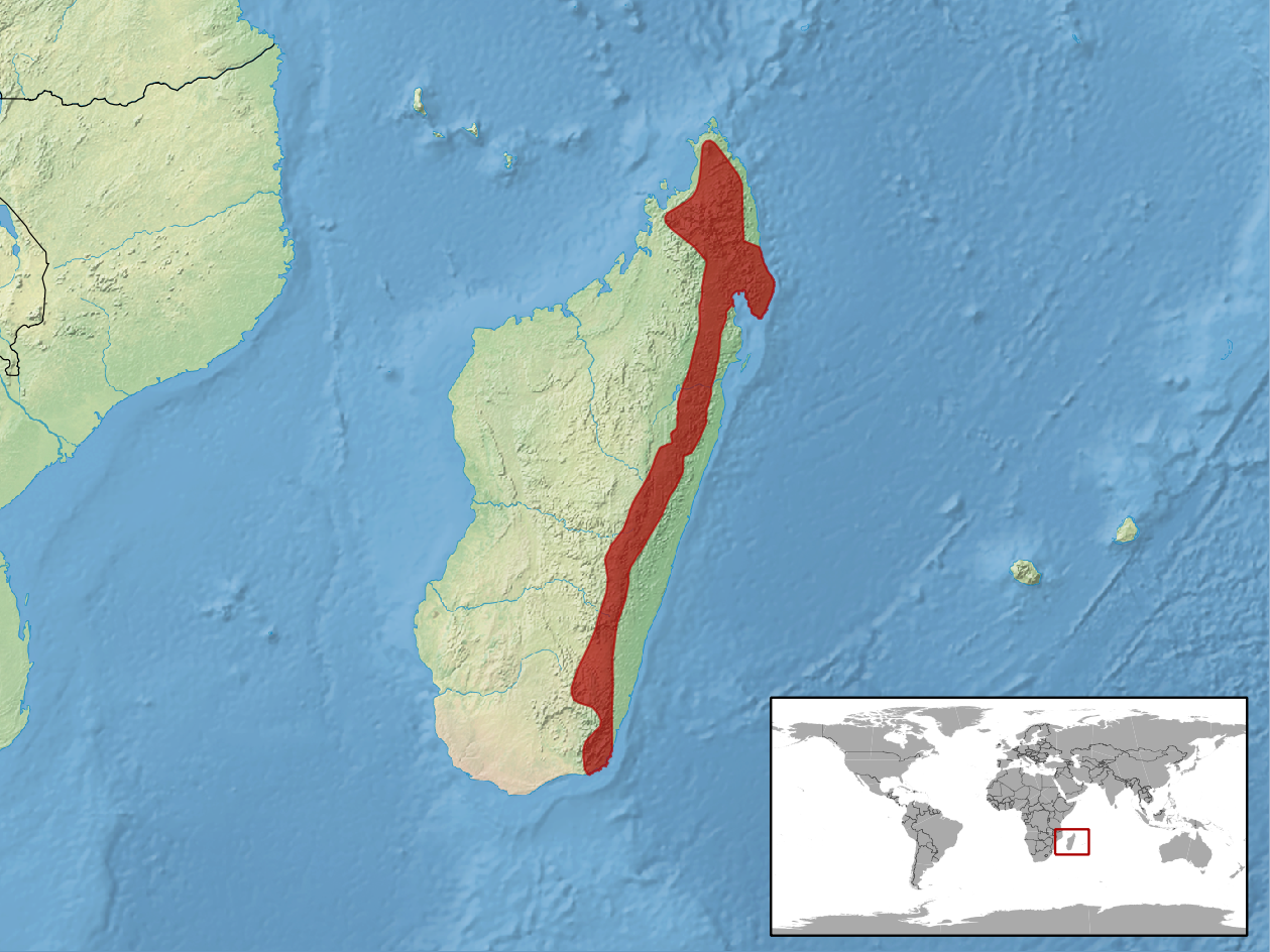 geographic distribution of Madascincus melanopleura